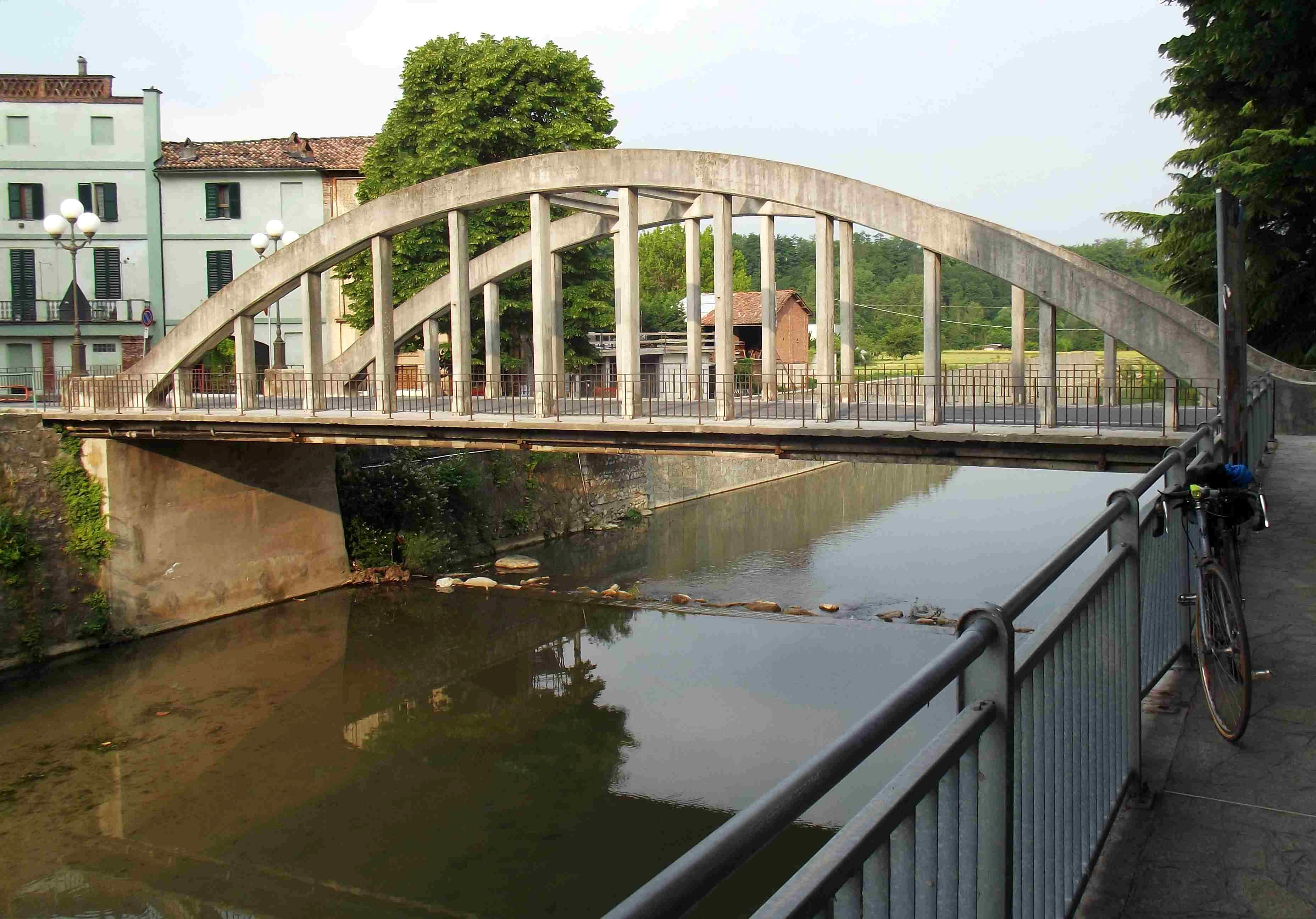 The last brideg on the Cevetta before its jonction to the Tanaro (Ceva, Italy)